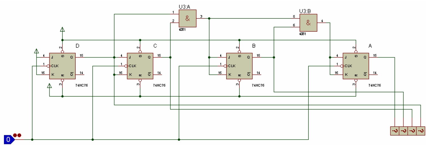 Counter